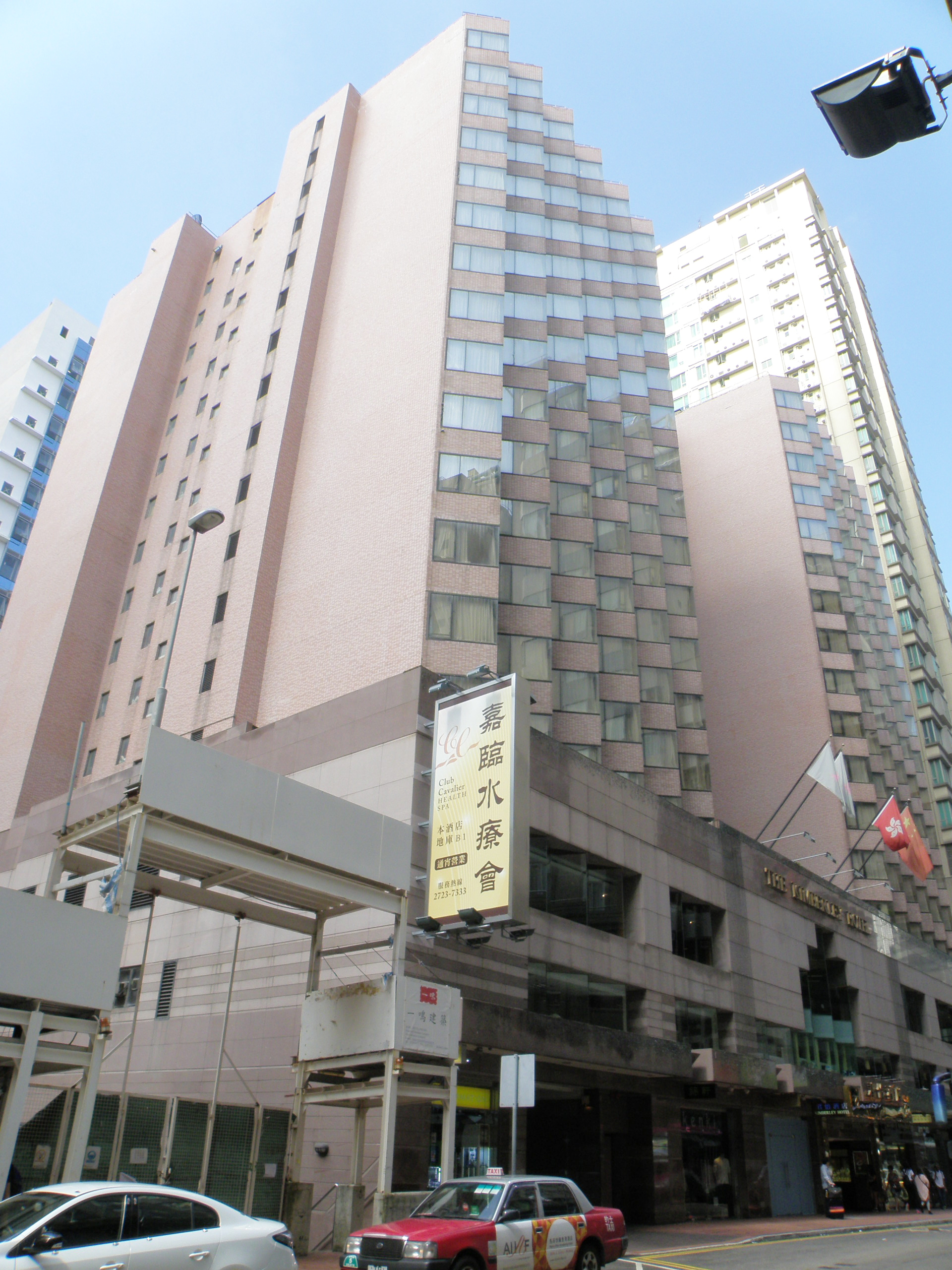 Kimberley Hotel in Tsim Sha Tsui, Hong Kong.